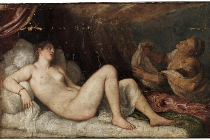 Danaë (c.1553) by Titian. Titian at Apsley House: Following recent cleaning and conservation, three paintings – previously attributed to later followers of Titian – have been revealed to be by the 16th century Venetian artist himself and his studio. The paintings including the Danaë will go on display in public together for the first time as part of a small exhibition opening in July 2015 at Apsley House, the London home of the Duke and his descendants.The three paintings, now attributed to Titian and his studio, are Titian’s Mistress (c.1560), A Young Woman Holding Rose Garlands (c.1550), and the Danaë (c.1553)For further information